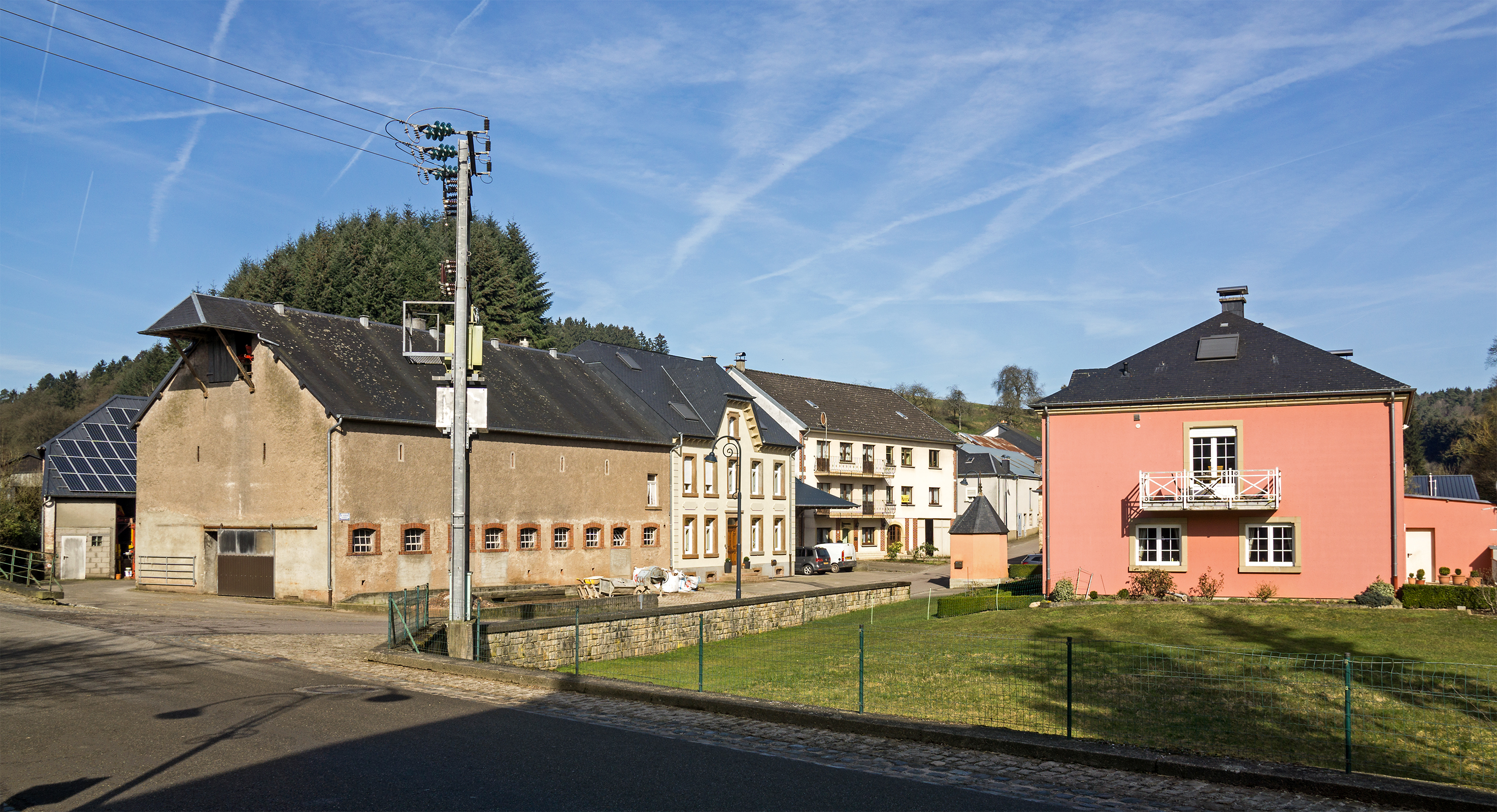 View on rue Nicolas Grang in Buschrodt